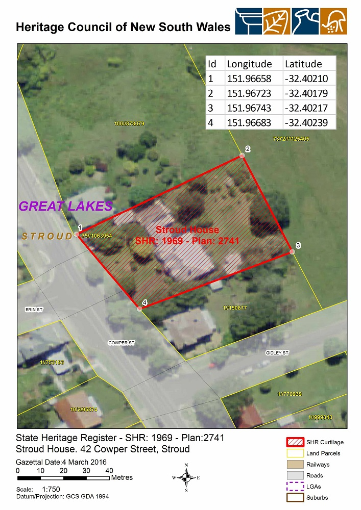 Stroud House (Stroud, New South Wales): SHR Plan 2741